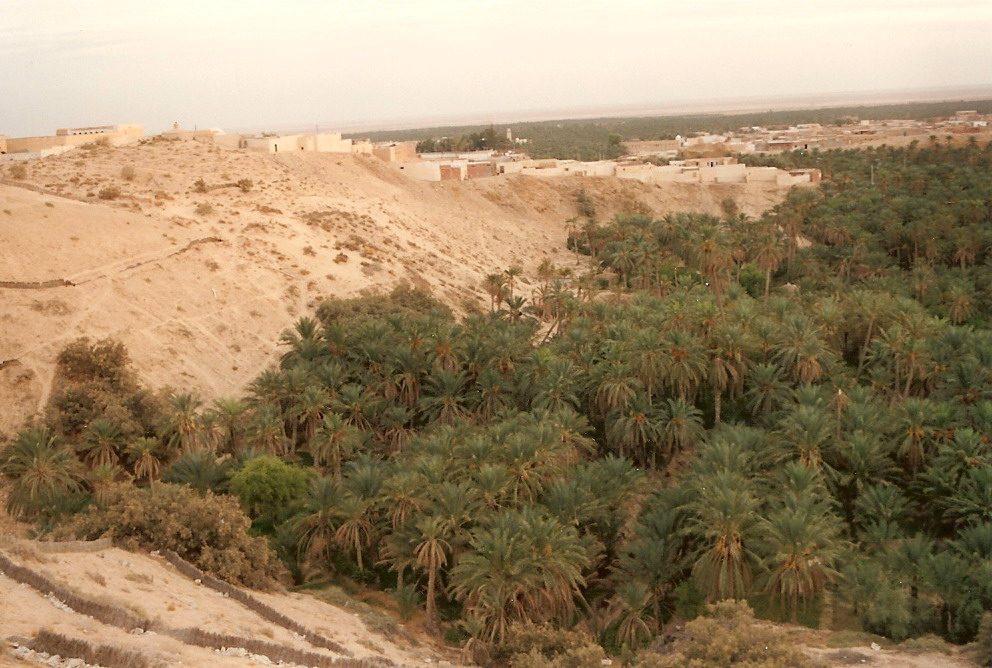 Oasis of Nefta